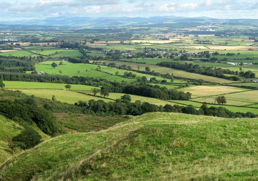 The Annandale Way is a 53-mile (85 km) hiking trail in Scotland. View of Annandale from near the Joe Graham monument with Lochmaben on the left edge of the picture, Hightae in the middle foreground, Lockerbie near right edge and the Ettrick hills in the distance. Scothill Own Image taken 25th August 2010